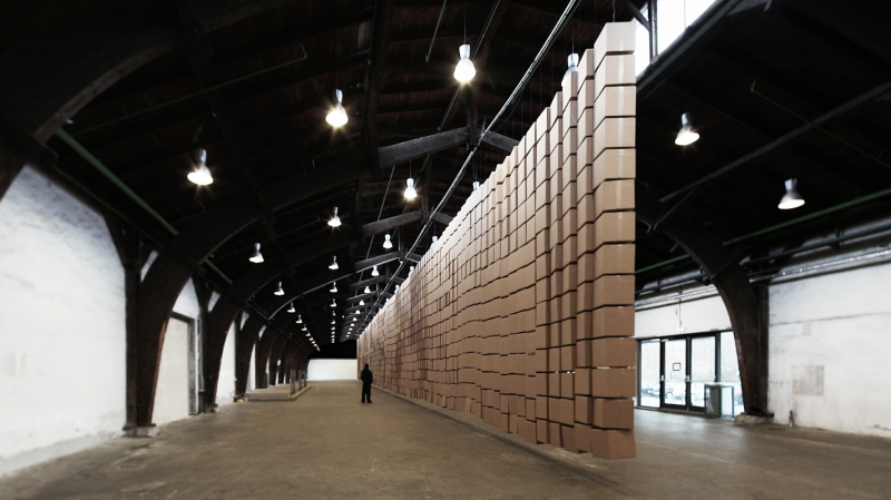 Installation 435 prepared dc-motors, 2030 cardboard boxes 35x35x35cm, Zimoun 2017. Installation view: Godsbanen, Aarhus, Denmark.